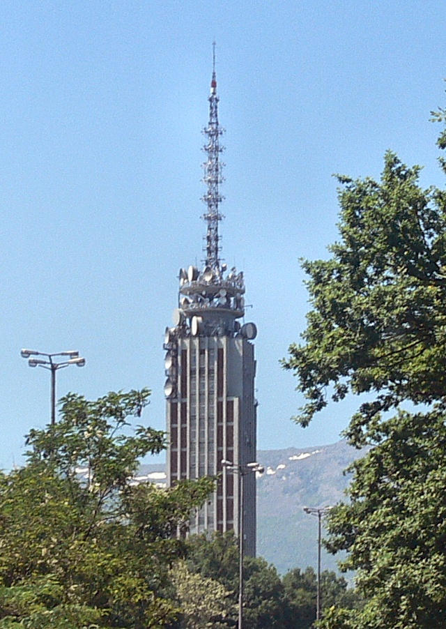 Borisova Gradina TV Tower, Sofia, Bulgaria